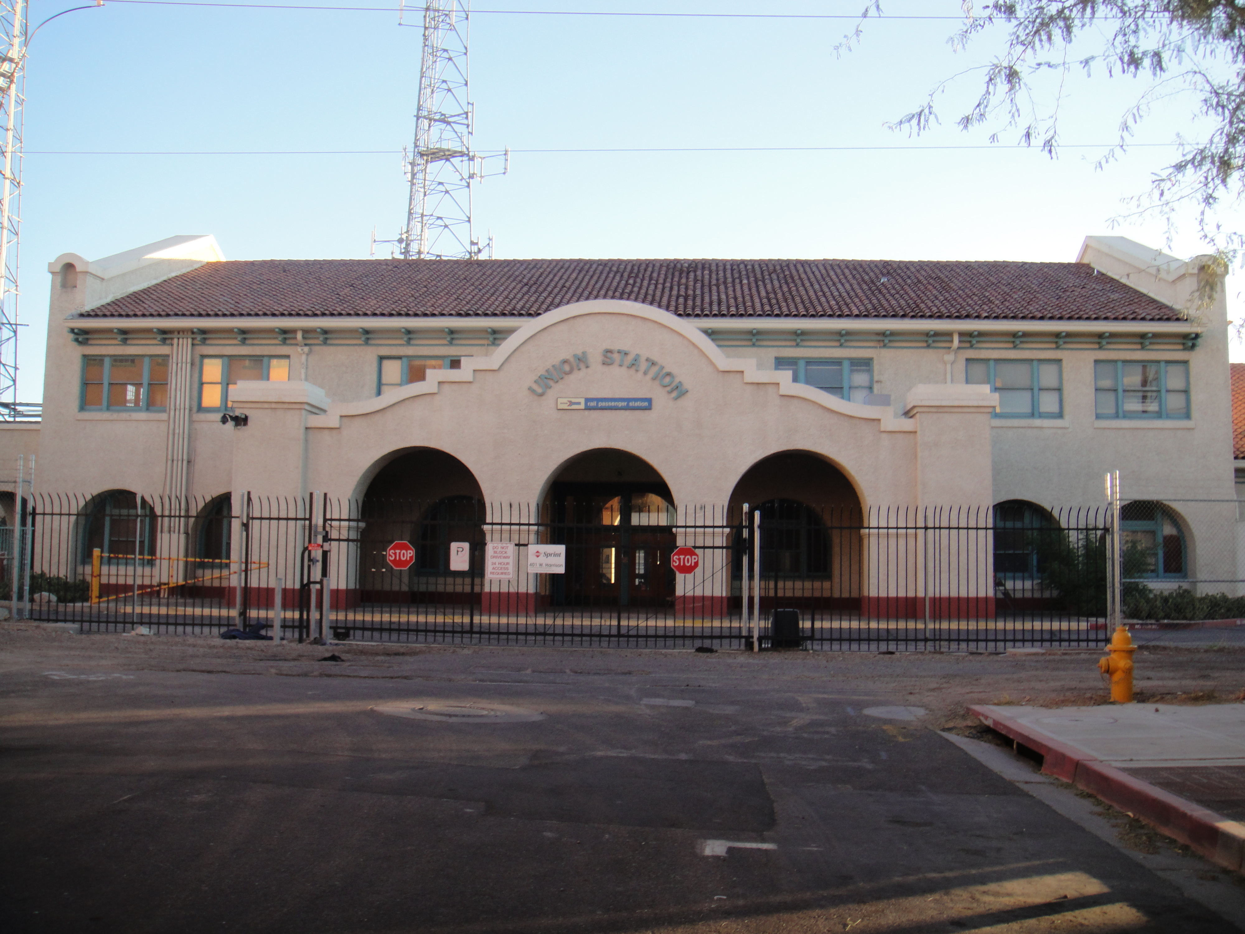 The north side of the historic Phoenix Union Station — in Phoenix, Arizona. Former Union Station of the Southern Pacific and Santa Fe Railroads. Designed in the Mission Revival Style, by Peter Kiewit in 1923. A rail station on the National Register of Historic Places.